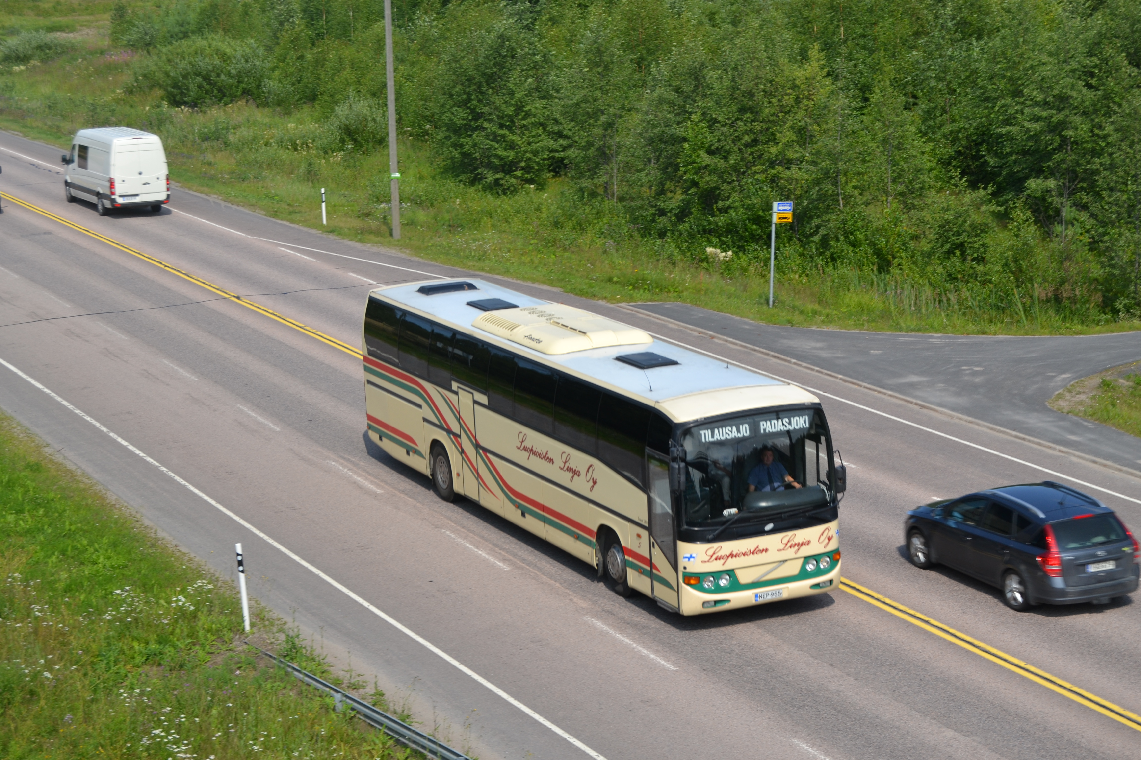 Luopioisten Linja Lahti Falcon 540 Volvo B10M bus (no. 5, NEP-599, 2001) in Muurame, Finland